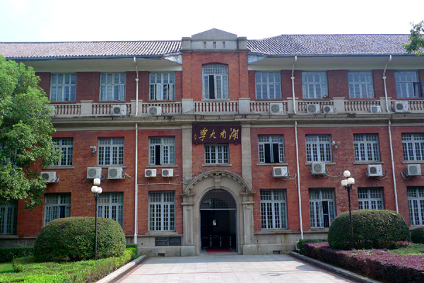 hunan university